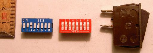 Electrical switches. From left: 2 DIP-switches, 1 single pole switch